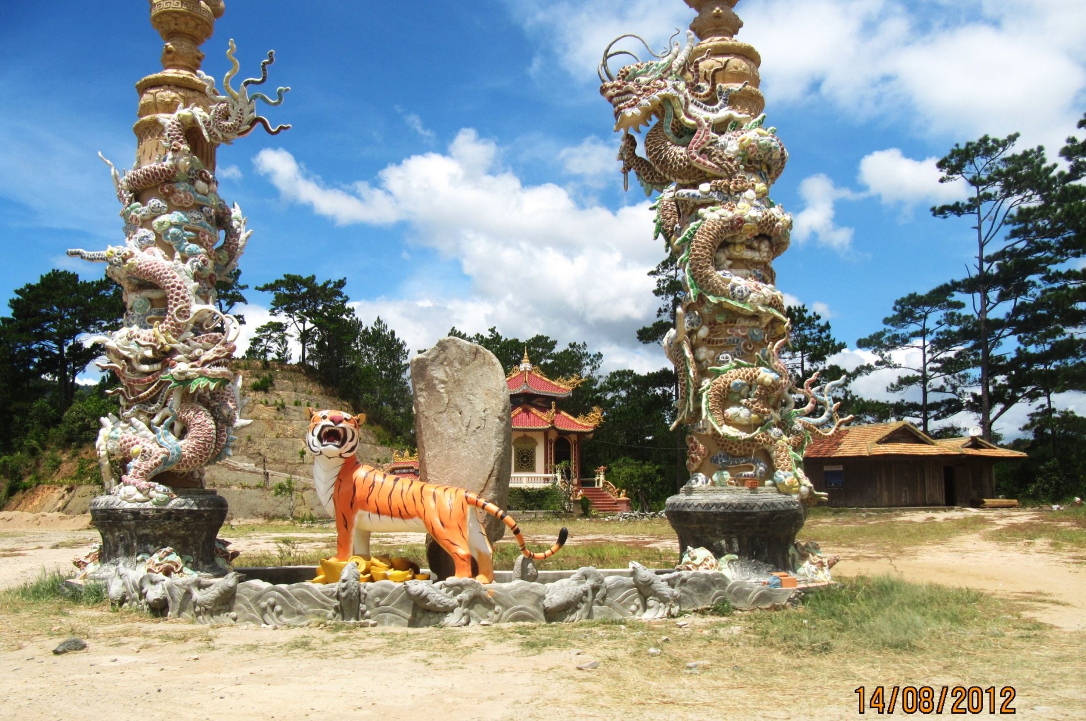 That constructed for tourism on the top of Sông Pha pass.